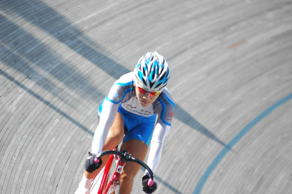 2011/10/21 Taiwan Games in Changhua